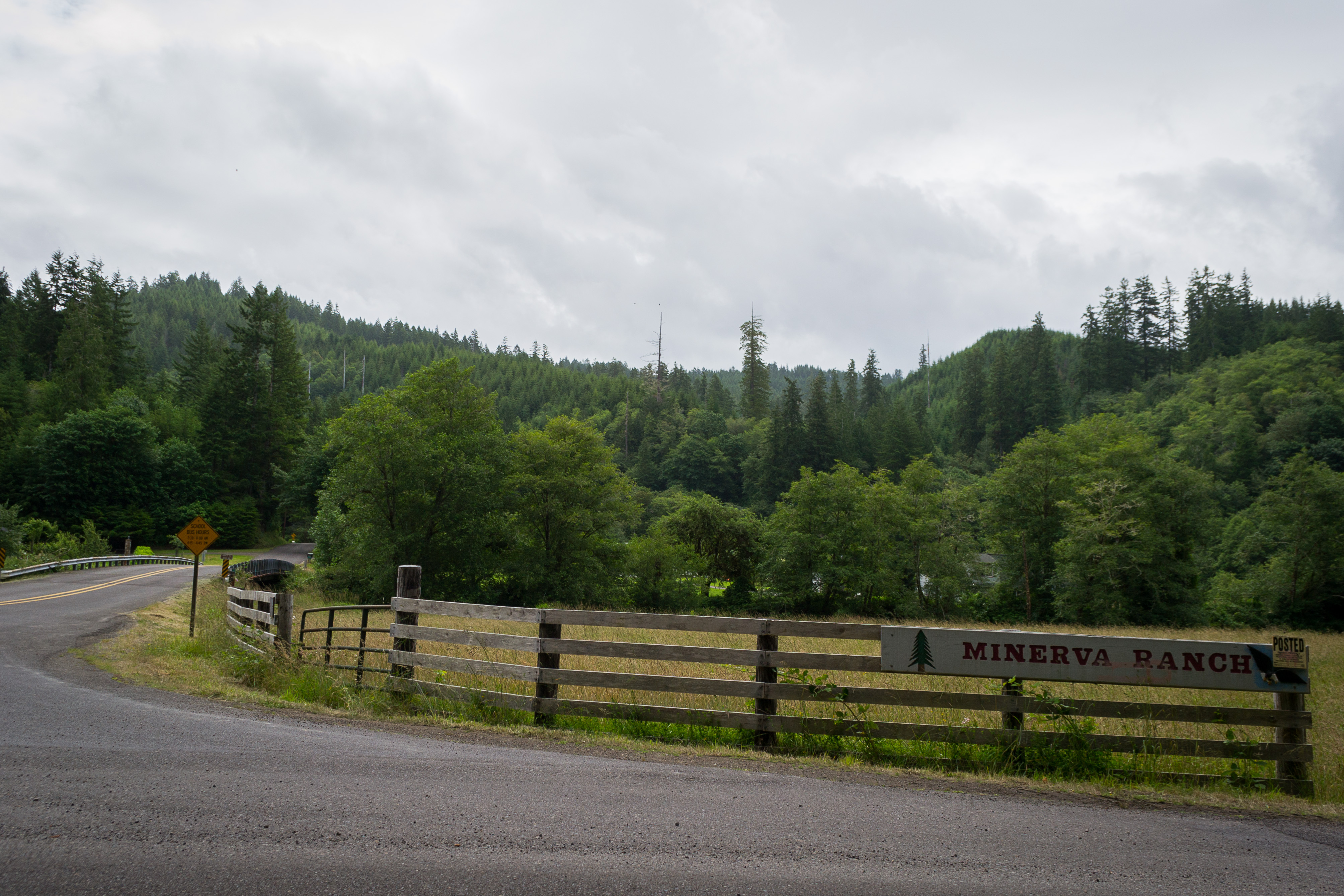 A ranch at the entrance to Minerva, Oregon